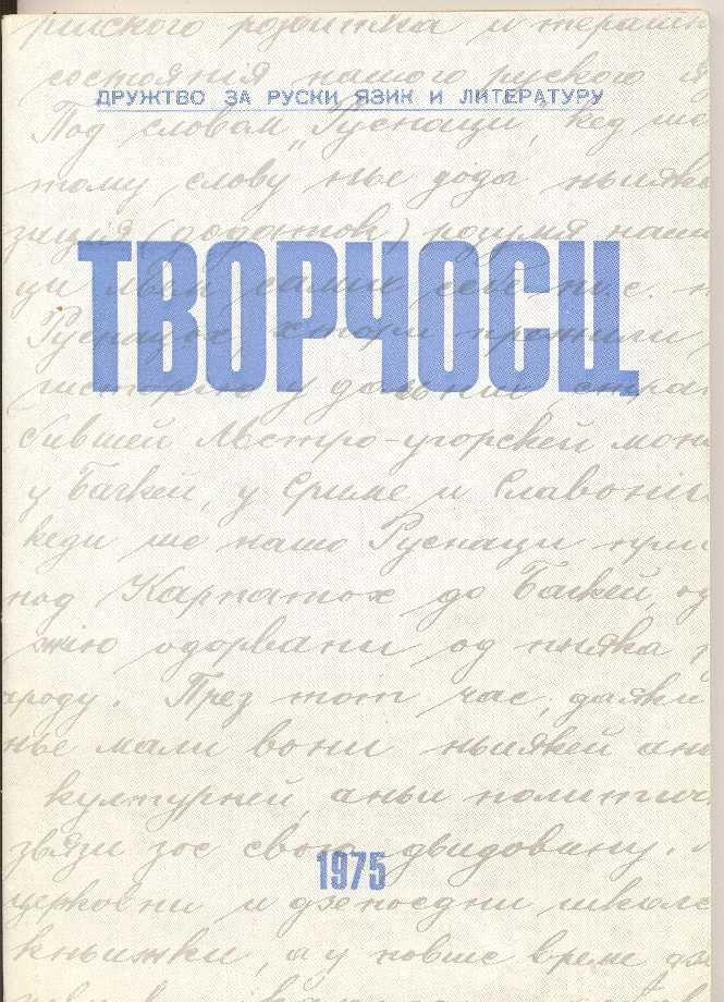 Cover of Scientific journal Tvorcosc (Творчосц), 1975, Novi Sad, Serbia